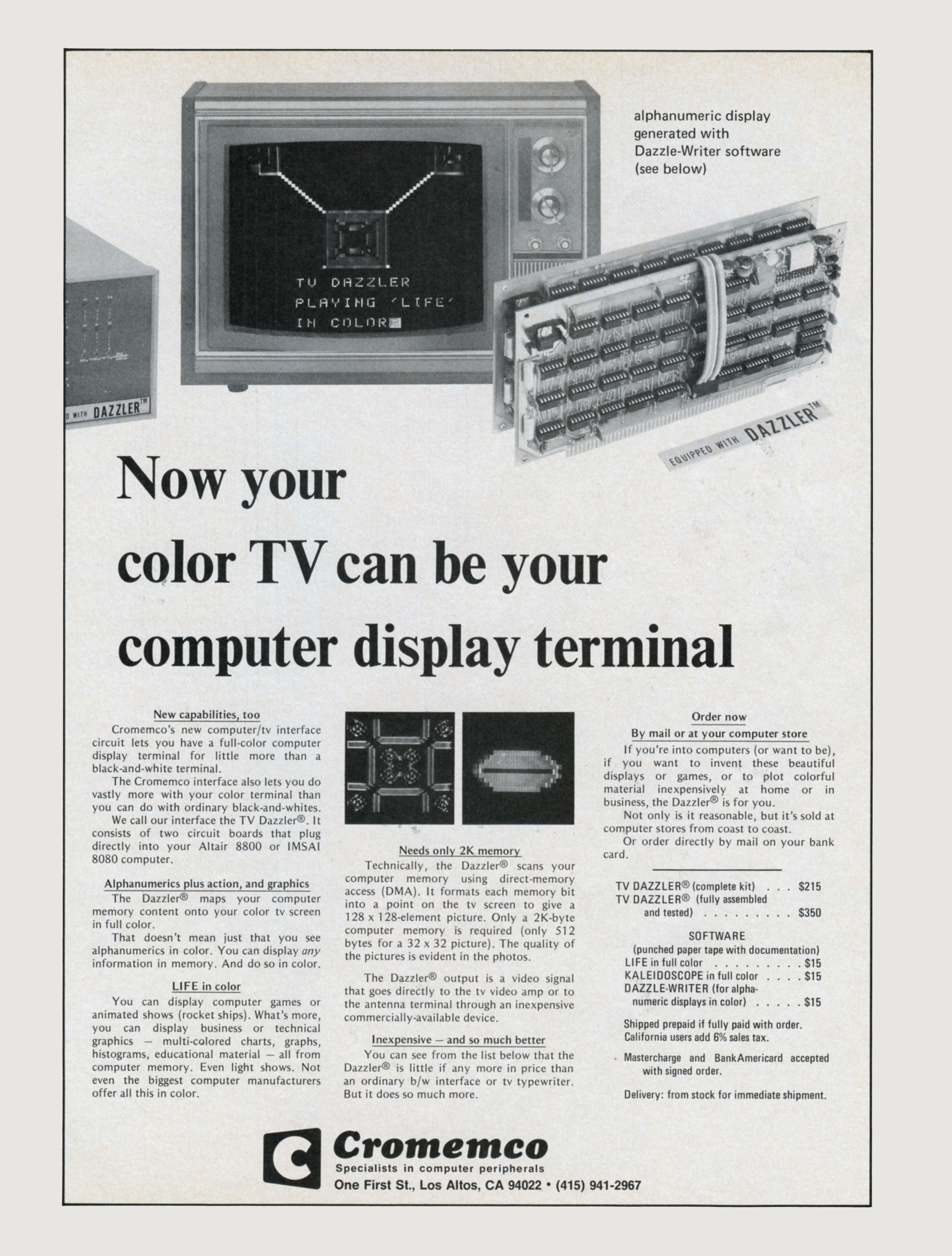 The Cromemco TV Dazzler introductory advertisement from the April 1976 issue of Byte magazine, page 7.